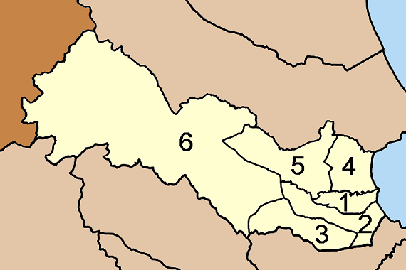 Map of Tha Chana district, Surat Thani province, with the communes (tambon) numbered Tha Chang (ท่าฉาง) Tha Khoei (ท่าเคย) Khlong Sai (คลองไทร) Khao Than (เขาถ่าน) Sawiat (เสวียด) Pak Chalui (ปากฉลุย)